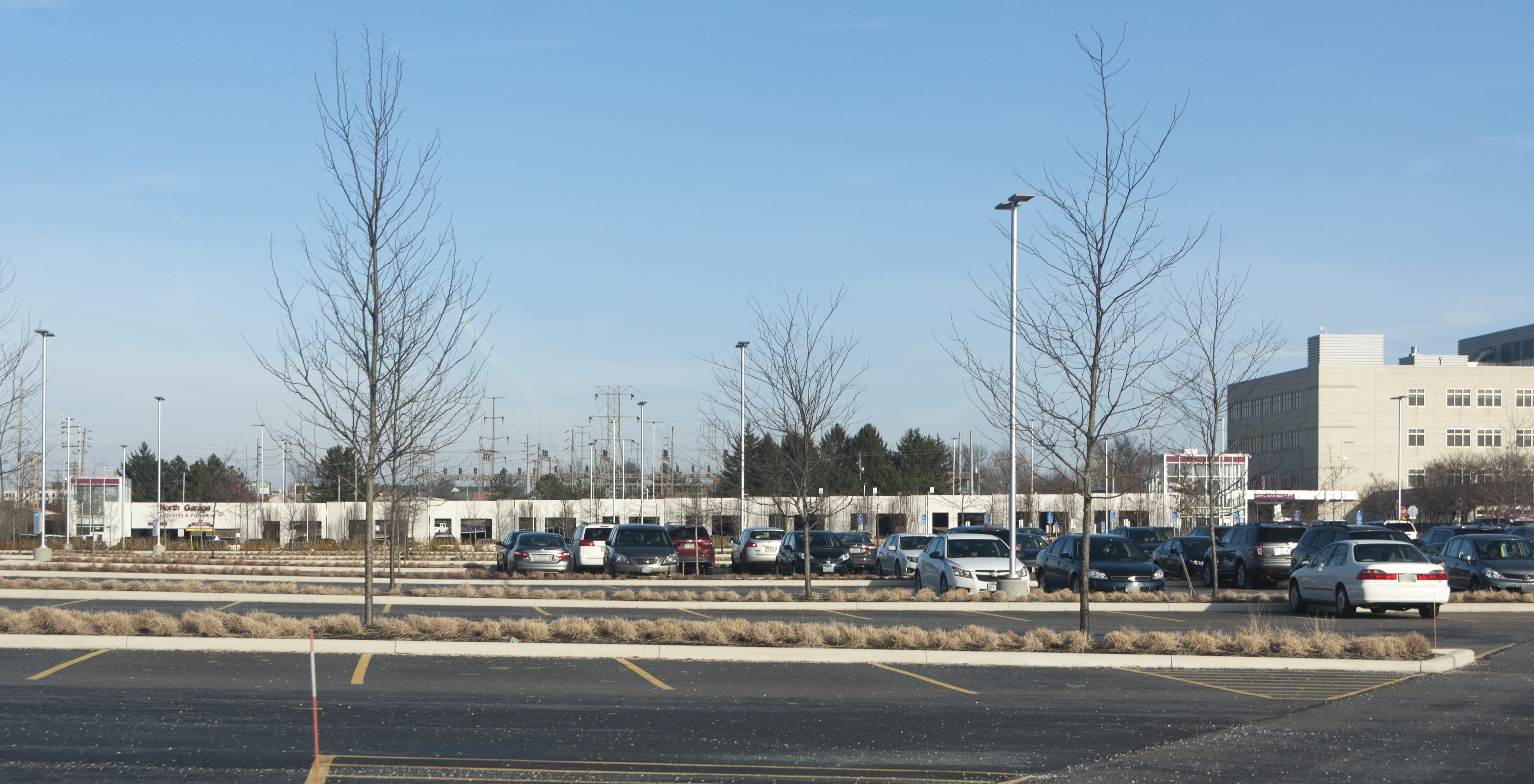 The North Parking Garage at Mount Carmel East seen from the east during late February 2018.